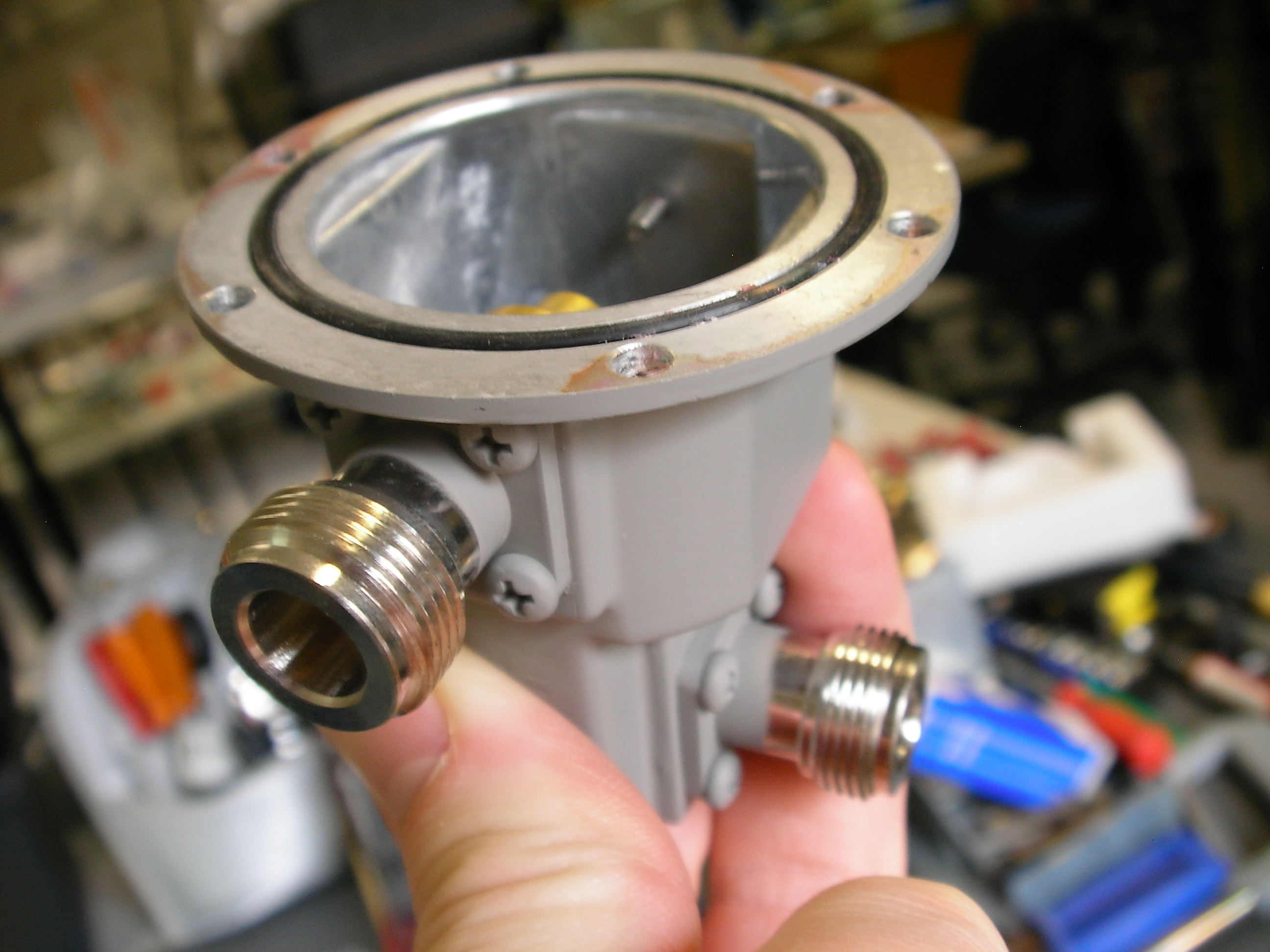 The feed horn on these dishes allows you to use horizontal or vertical polarity without having to rotate the feed.